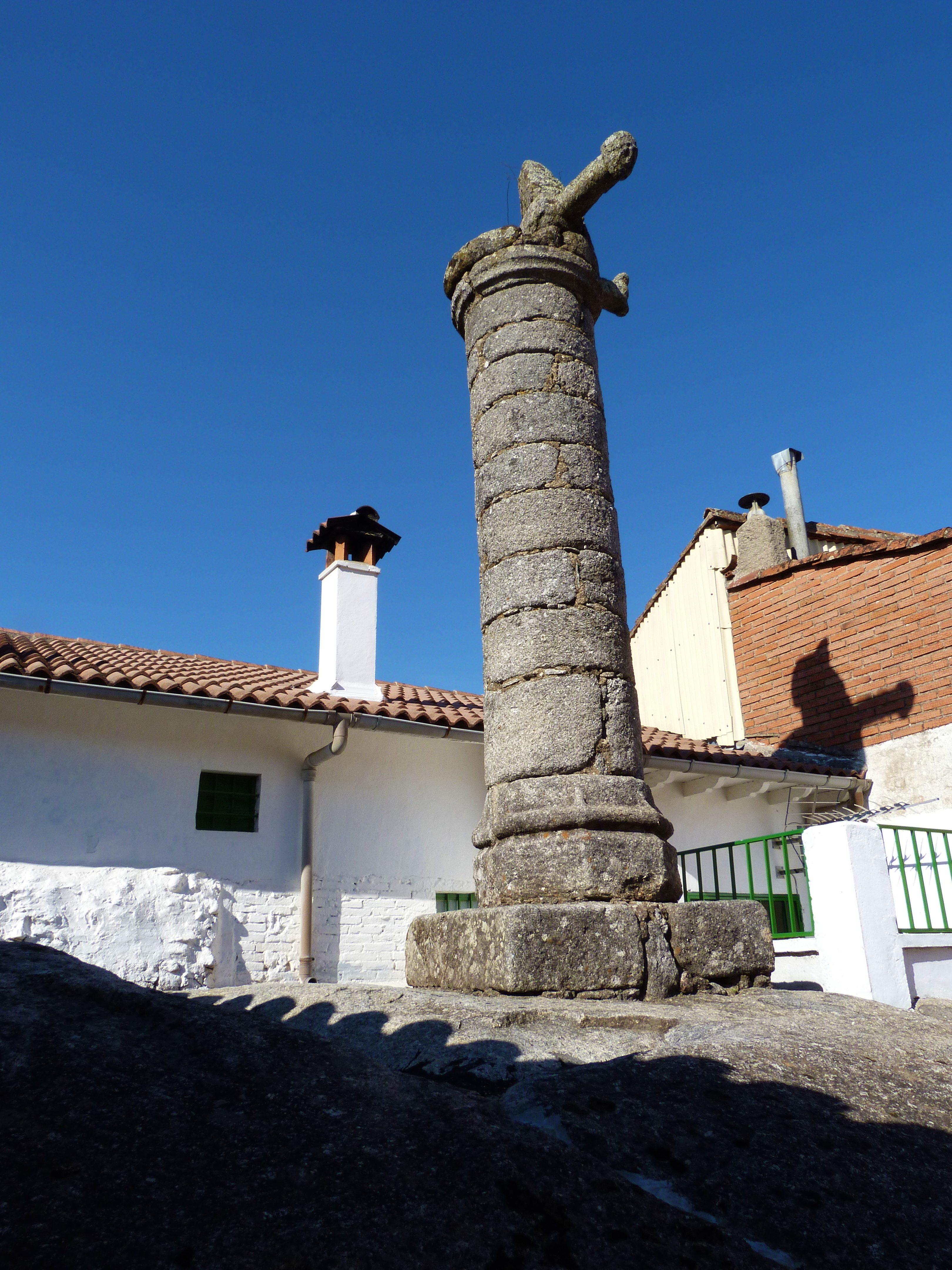 Village pillory de Arenas de San Pedro. Warning: In 2016 a downscaled version of this photograph was found here, without due cc-by-sa-3.0 license compliance.